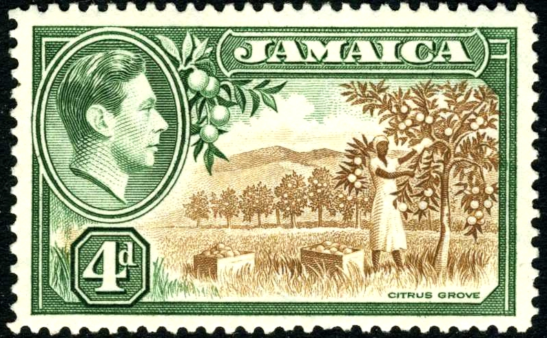 1938 four pence stamp of Jamaica from the reign of George VI.